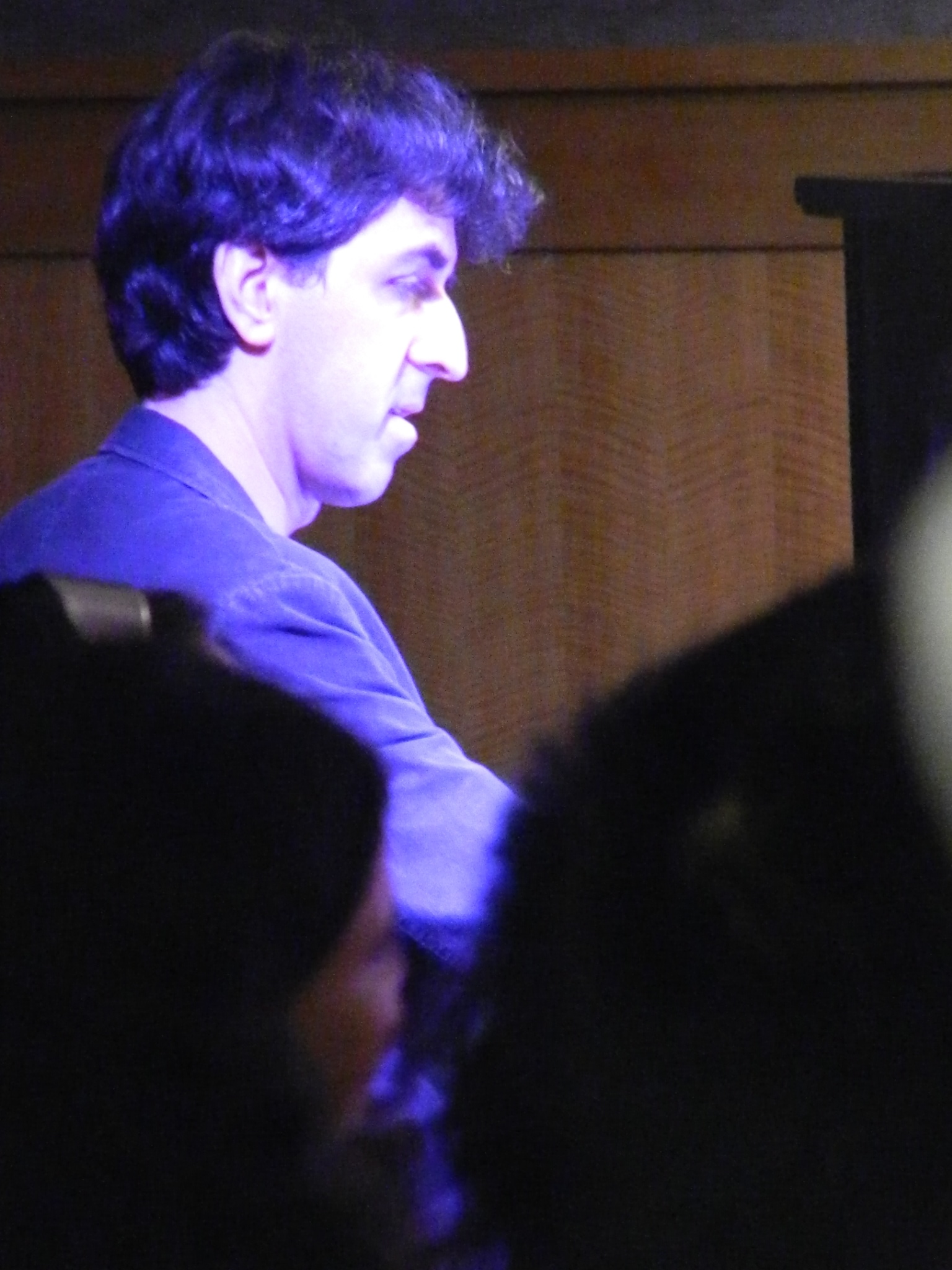 Performing at Barnes & Noble in New York, Oct. 15, 2013.